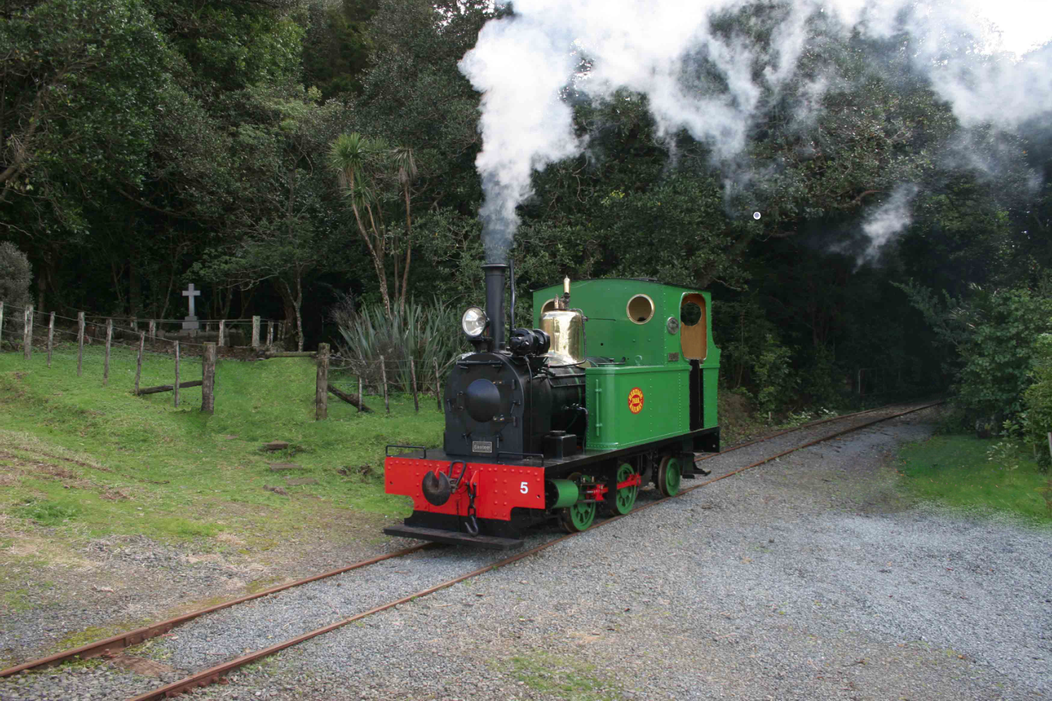 Peckett and son team locomotive 2157